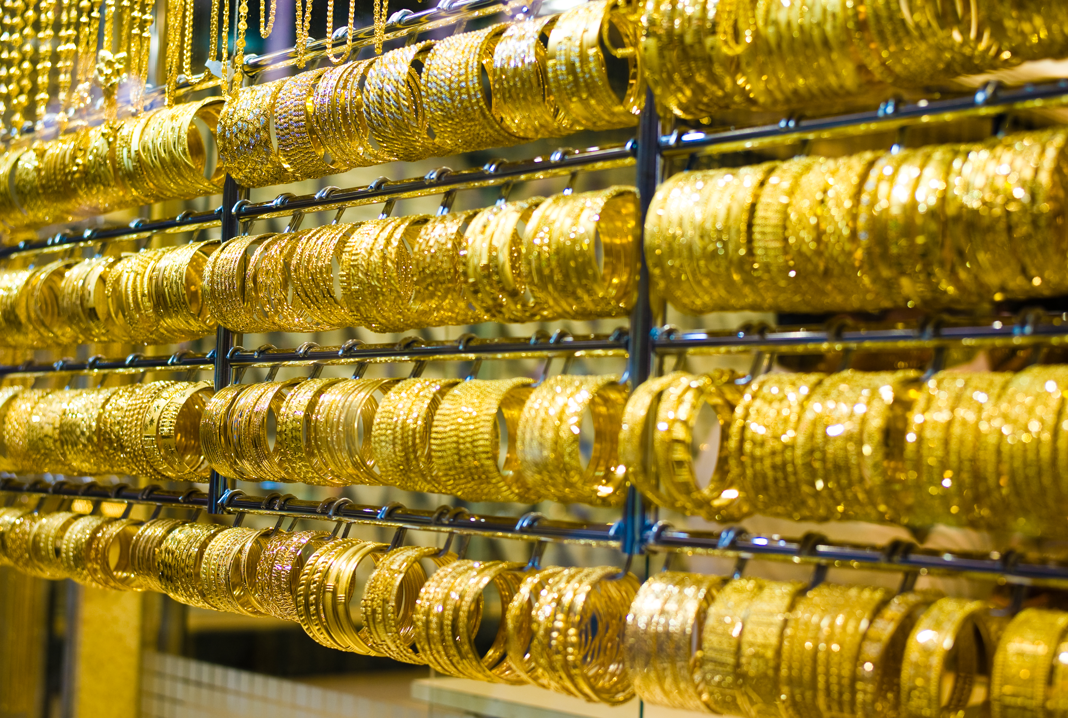 Bracelets at the Dubai gold market